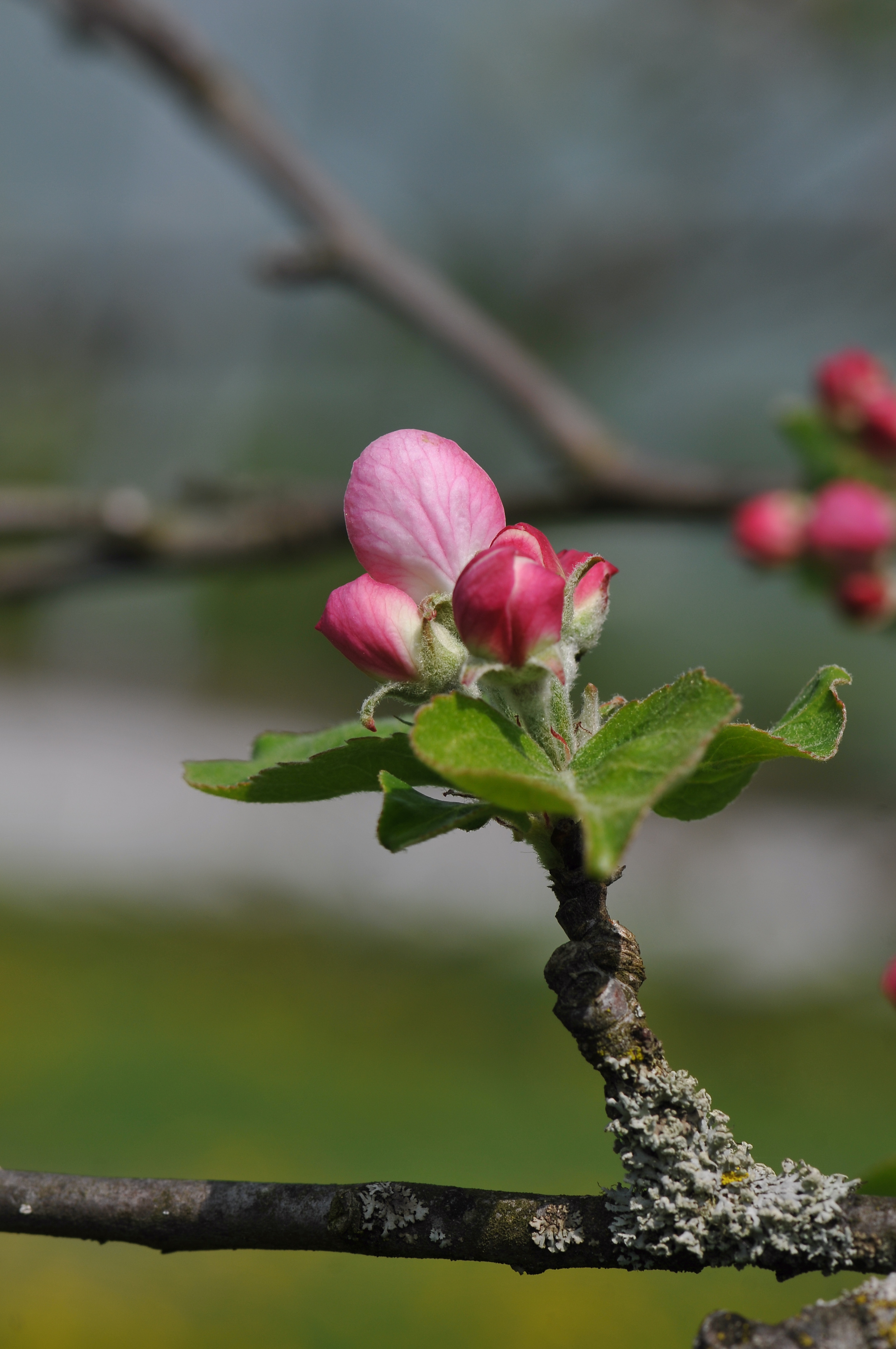 Apple flower